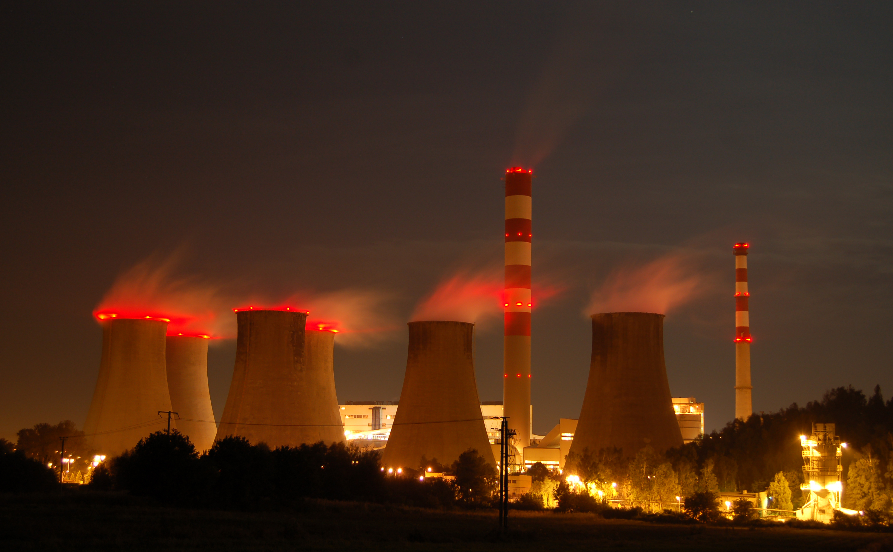 Power plant Laziska